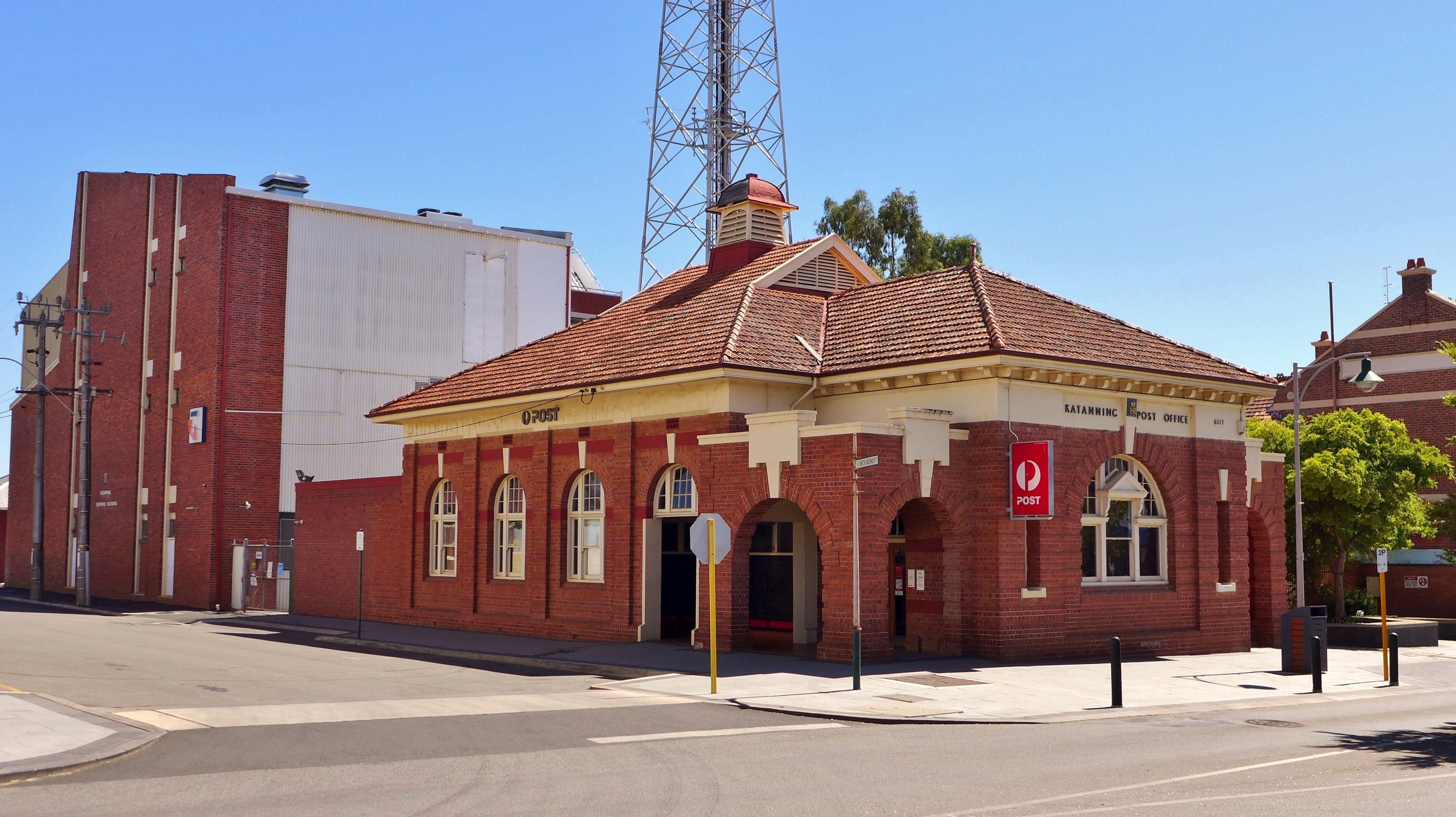 View of the post office, Katanning, Western Australia